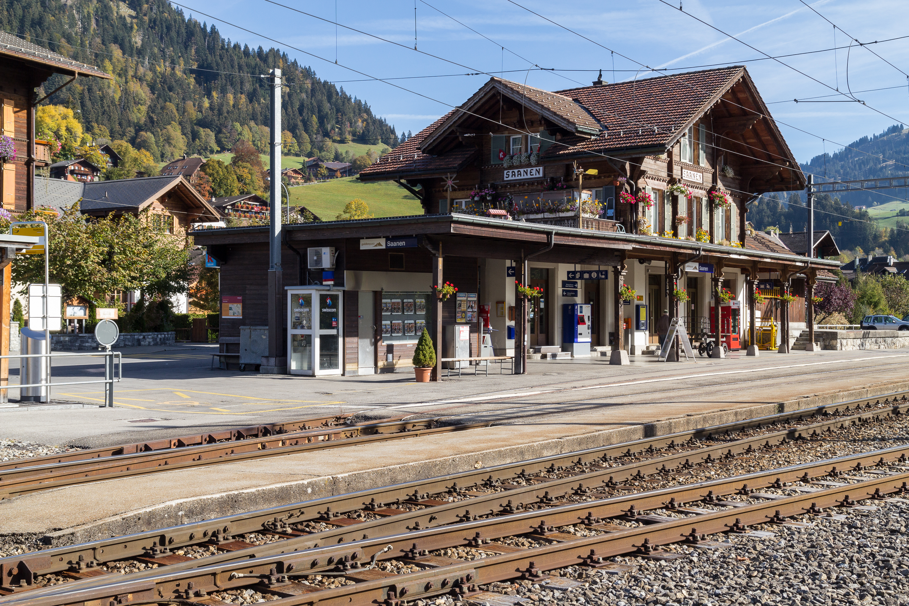 Saanen train station